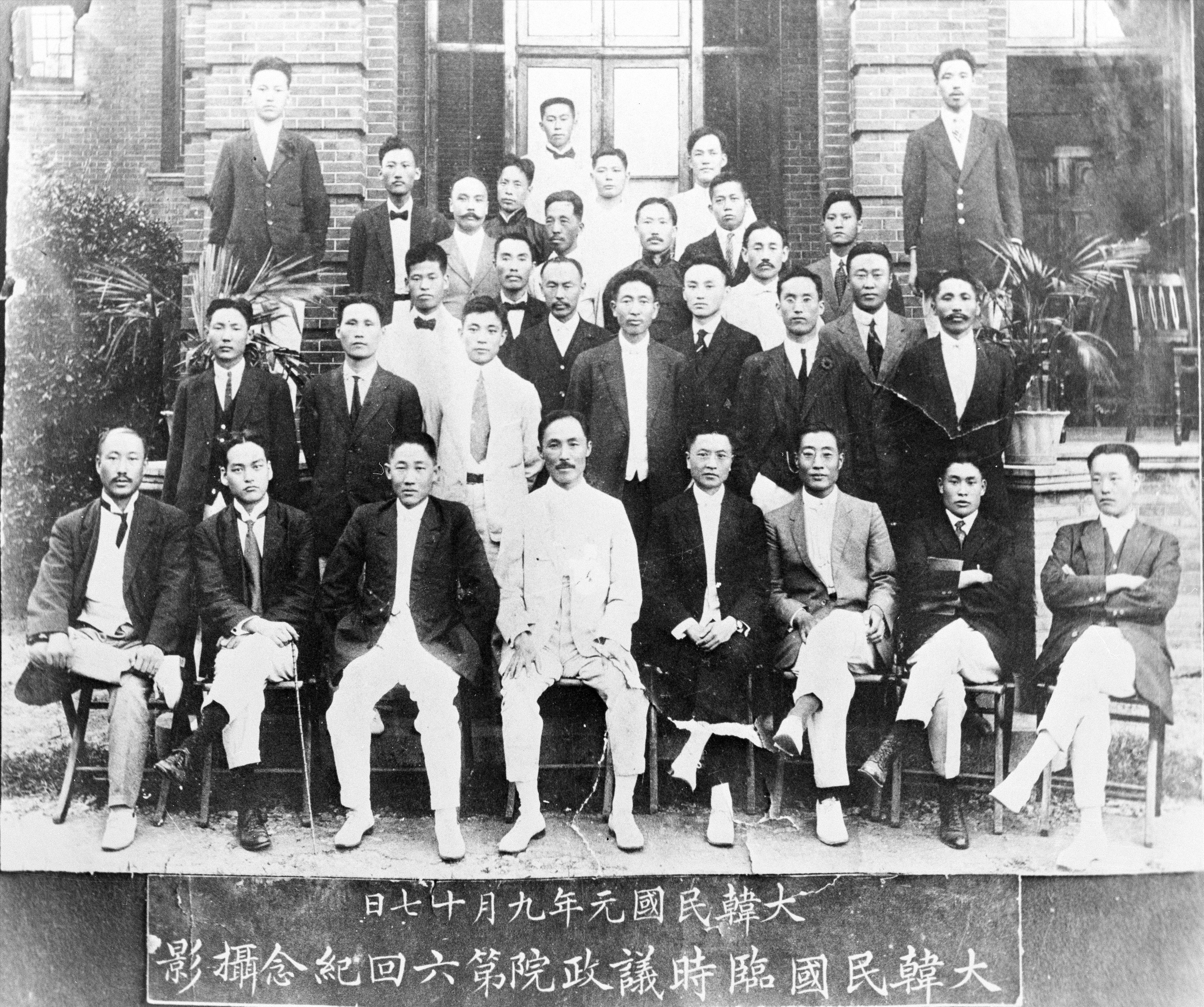 1919. 9. 17. Provisional Government of the Republic of Korea's Korean activist.